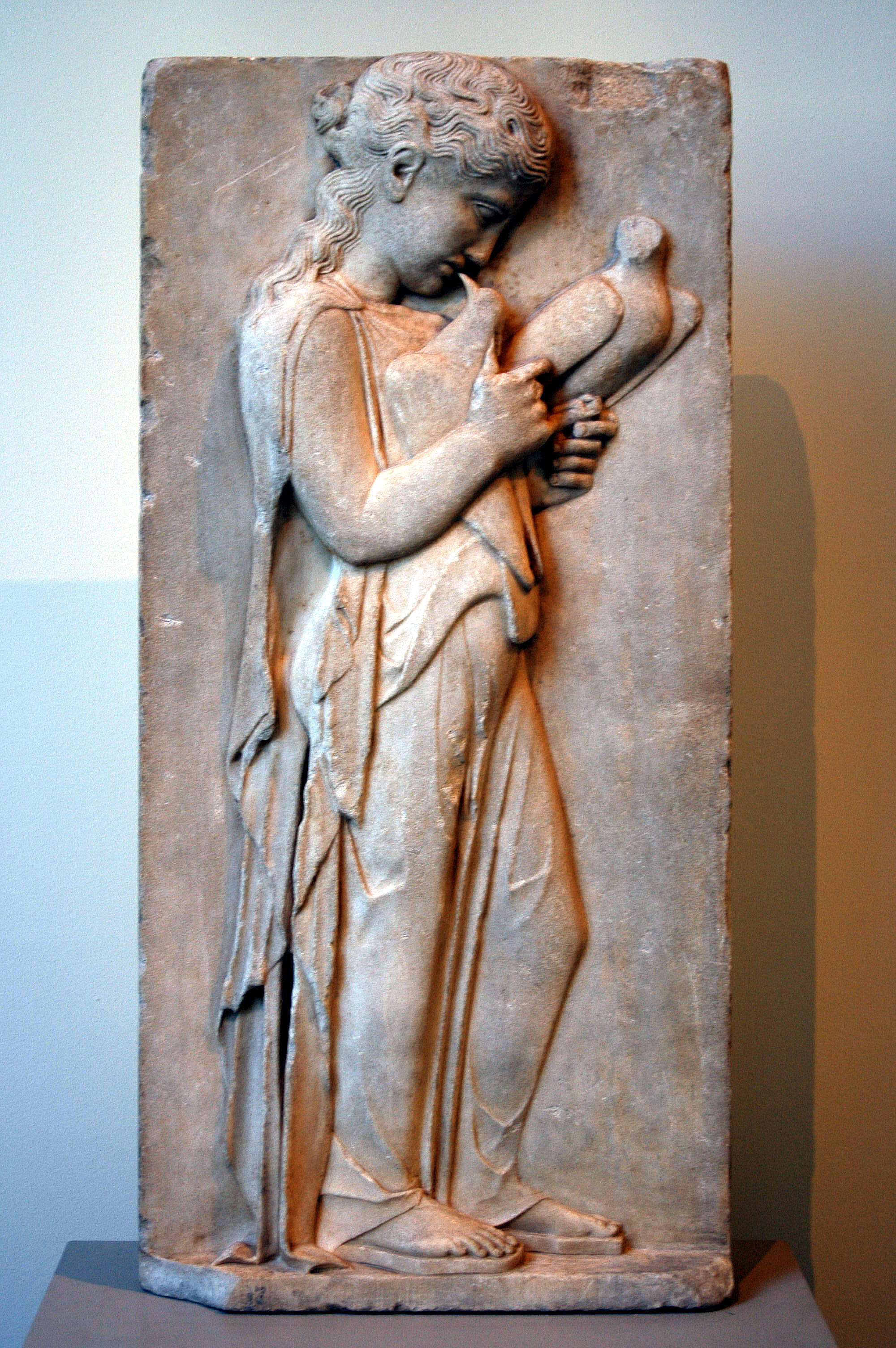 Marble grave stele of a little girl, ca. 450–440 B.C. Greek Marble, Parian; H. 31 1/2 in. (80 cm) The Metropolitan Museum of Art, New York, Fletcher Fund, 1927 (27.45) View at the Metropolitan Museum of Art website Wikipedia Loves Art at the Metropolitan Museum of Art This photo of item # 27.45 at the Metropolitan Museum of Art was contributed under the team name "Futons_of_Rock" as part of the Wikipedia Loves Art project in February 2009. Metropolitan Museum of Art The original photograph on Flickr was taken by AlkaliSoaps—please add a comment to the original Flickr page whenever a use has been made on Wikipedia or another project. Project galleries on Flickr: this institution, this team